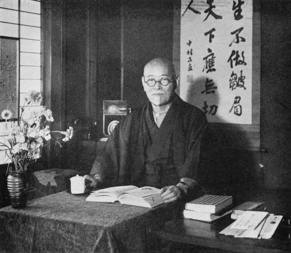 Mr. Heizaburō Takashima in his study room.